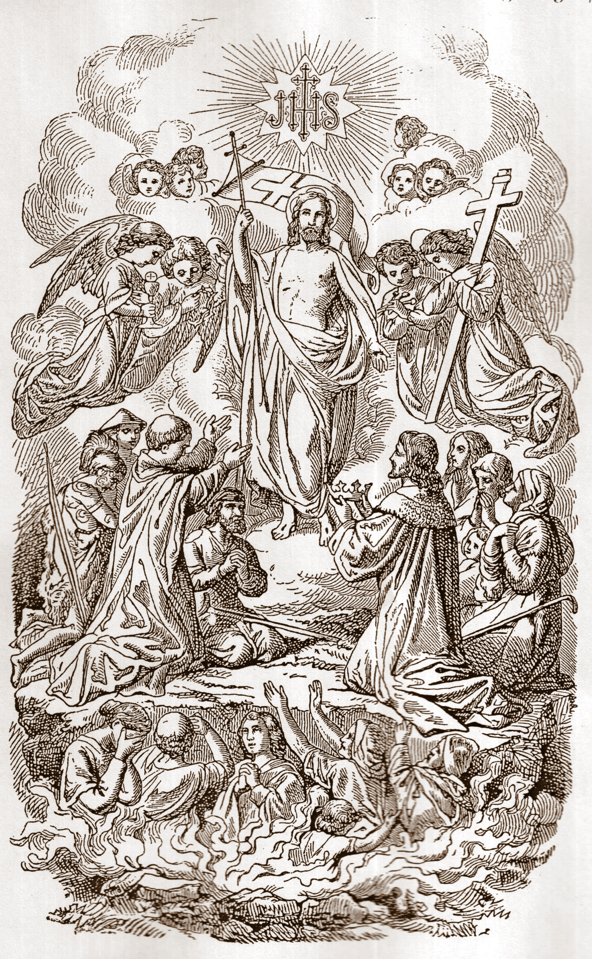 Picture: Community of Saints with Resurged Jesus